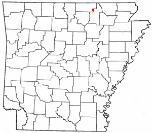 Location of Cherokee Village in Arkansas